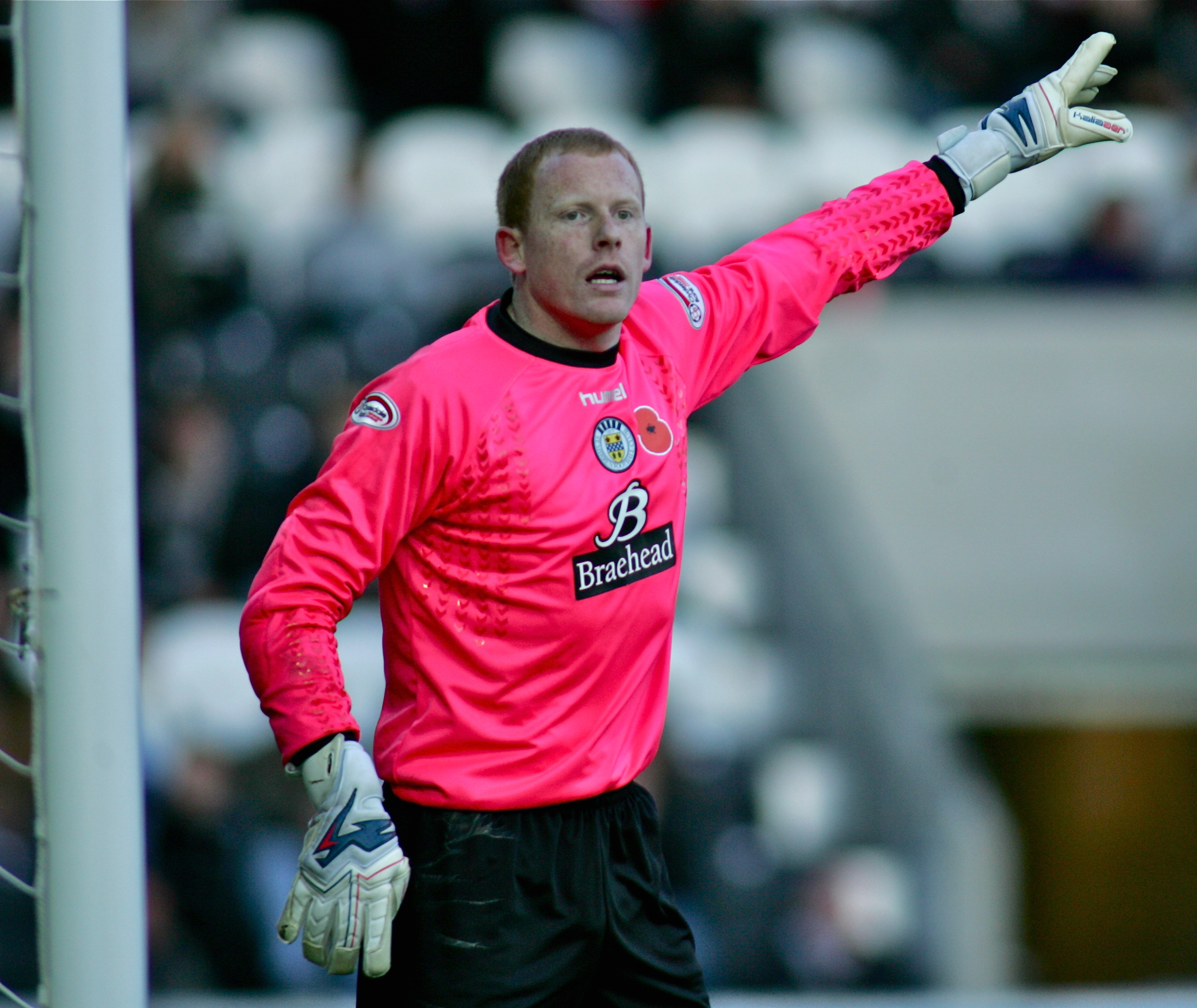 Craig Samson playing for St. Mirren F.C. in a Scottish Premier League match against Celtic played on 14 November 2010.